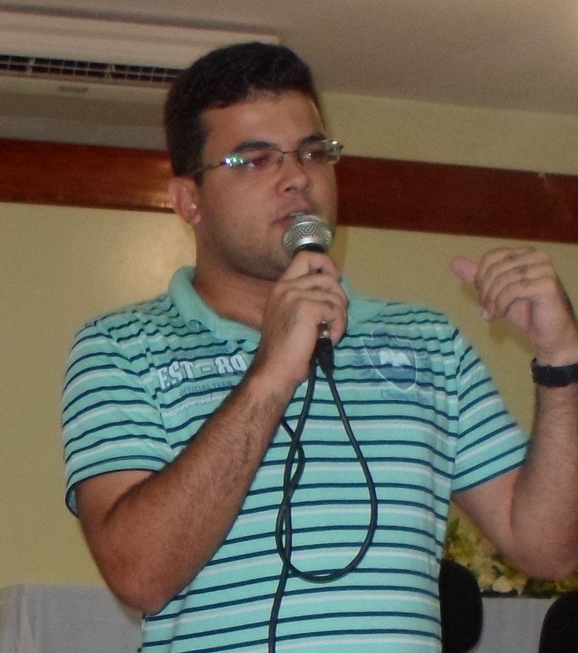 Osni Oliveira Noberto da Silva